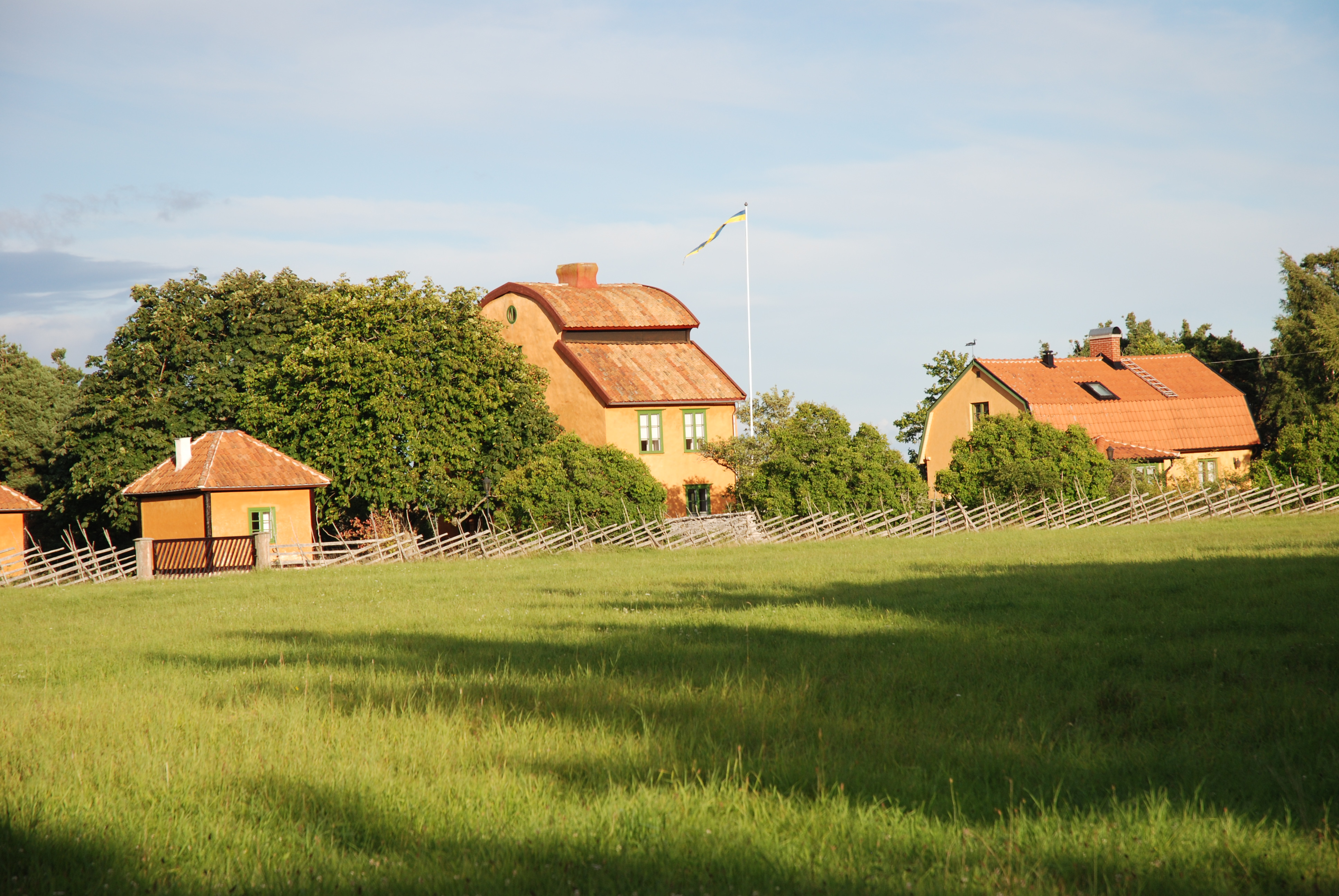 Annas nöje, summer house, Katthammarsvik, Gotland, Sweden. Picture take from west